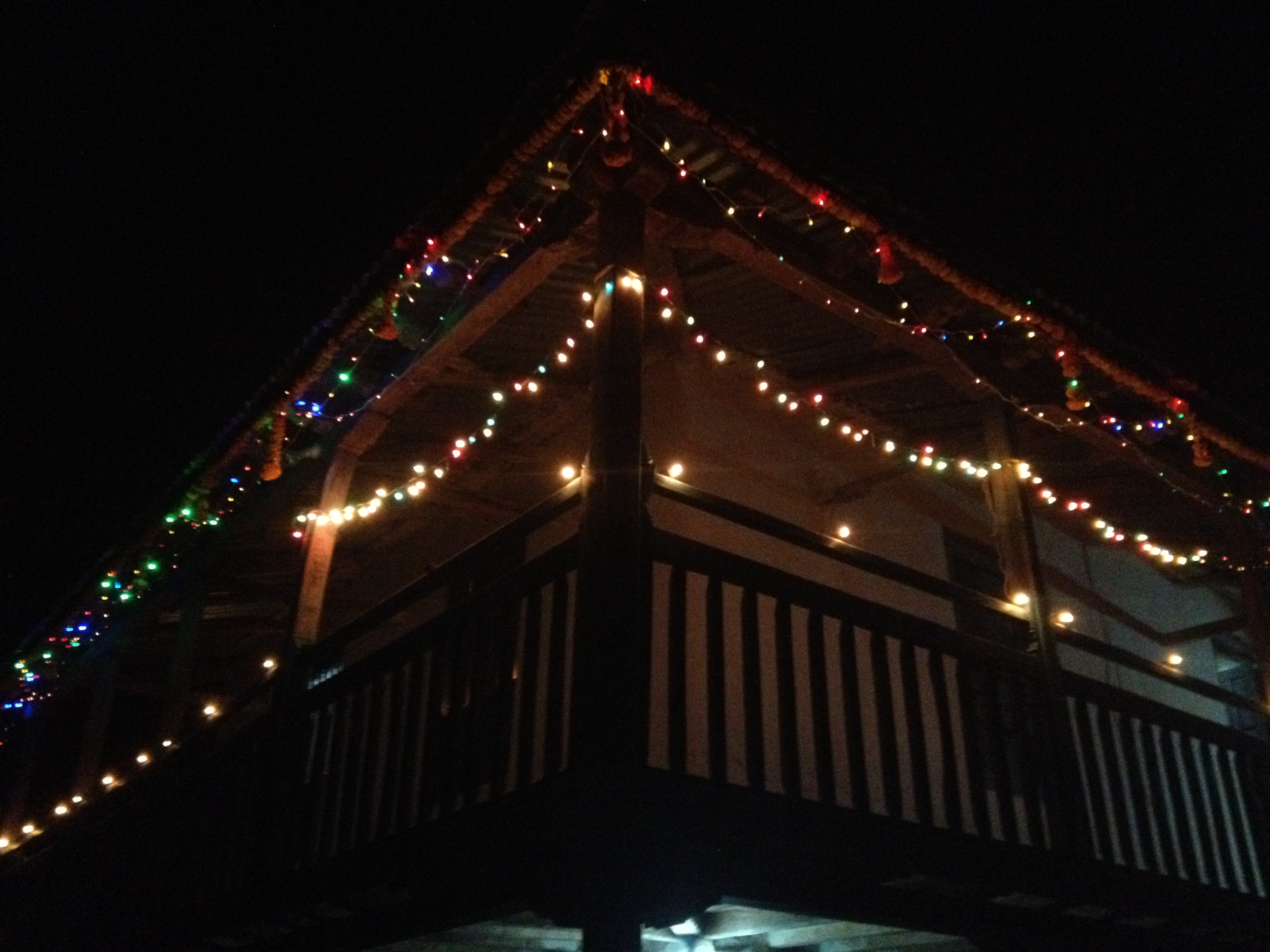 A Nepali House decorated for Dipawali.